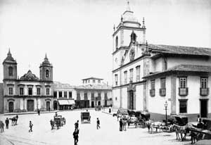 Cathedral Square of São Paulo